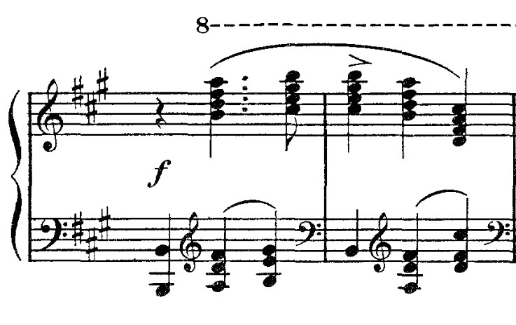 Valse No. 7